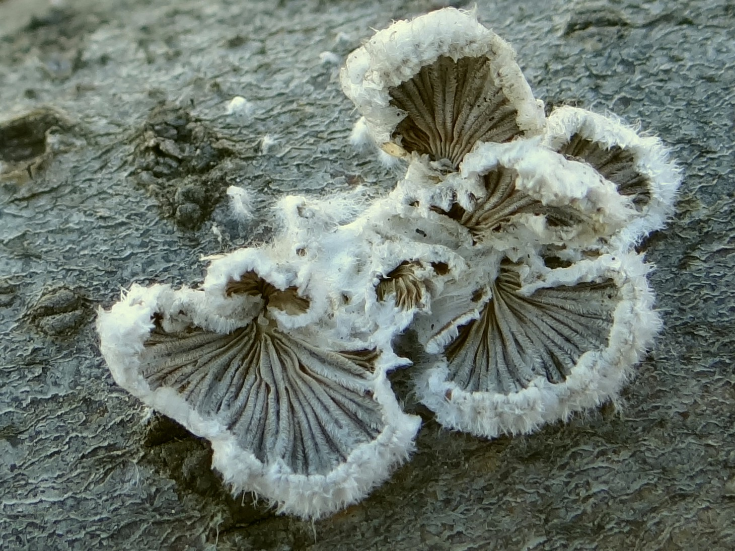 Schizophyllum commune